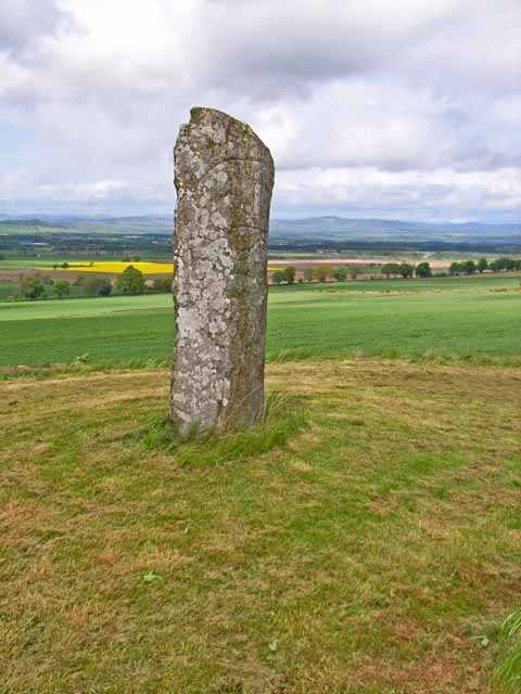 The Pictish Stone at High Keillor. A magnificent carved Pictish standing stone, dramatically situated on the slopes of the Sidlaw Hills overlooking Strathmore.